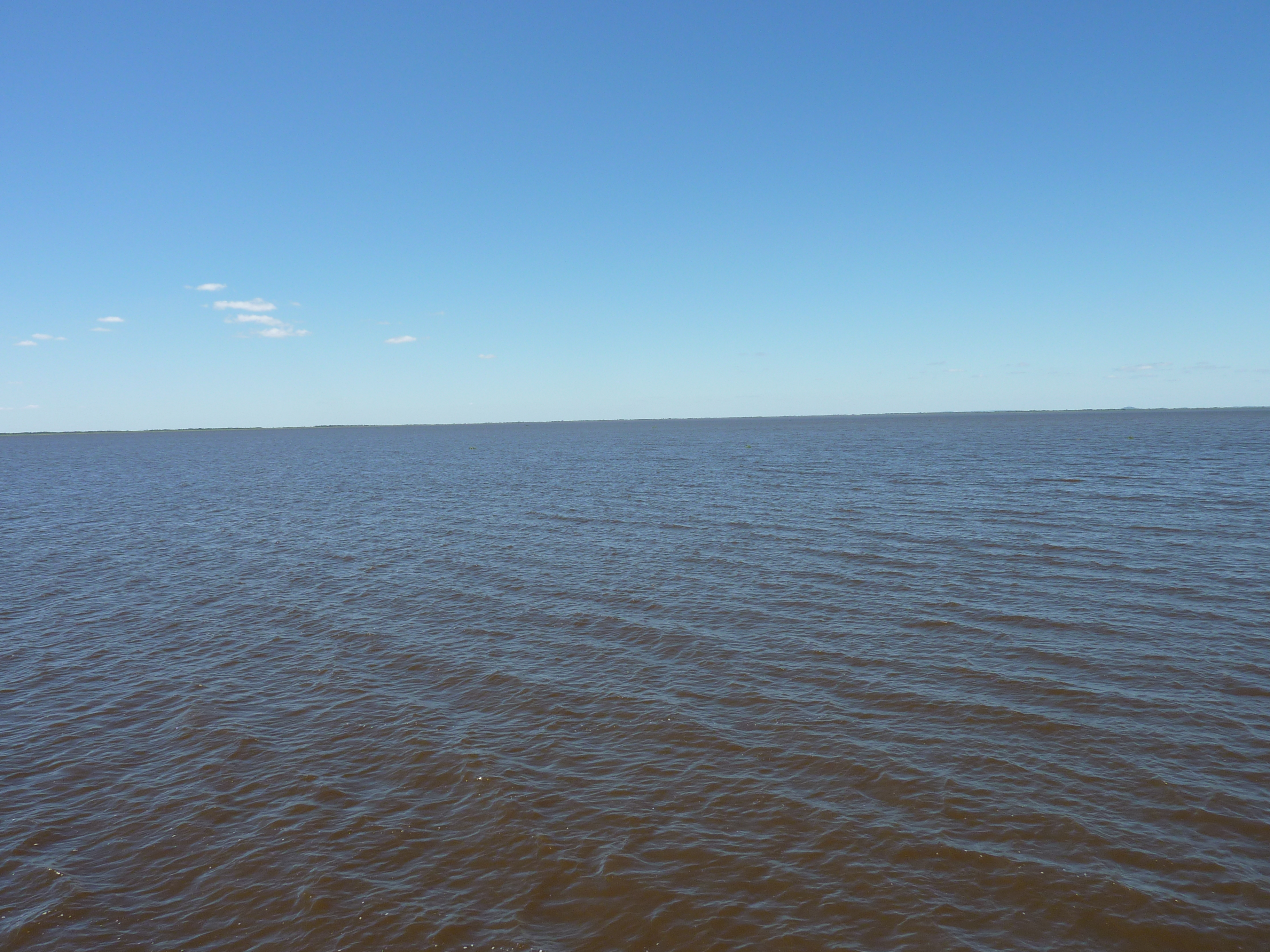 Meeting of the "Fraile Jóvenes" in Puerto Suarez, Bolivia.